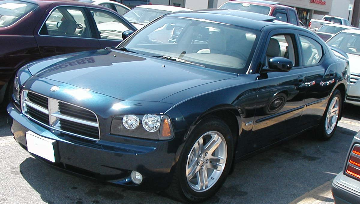 2006 Dodge Charger RT photographed in USA.